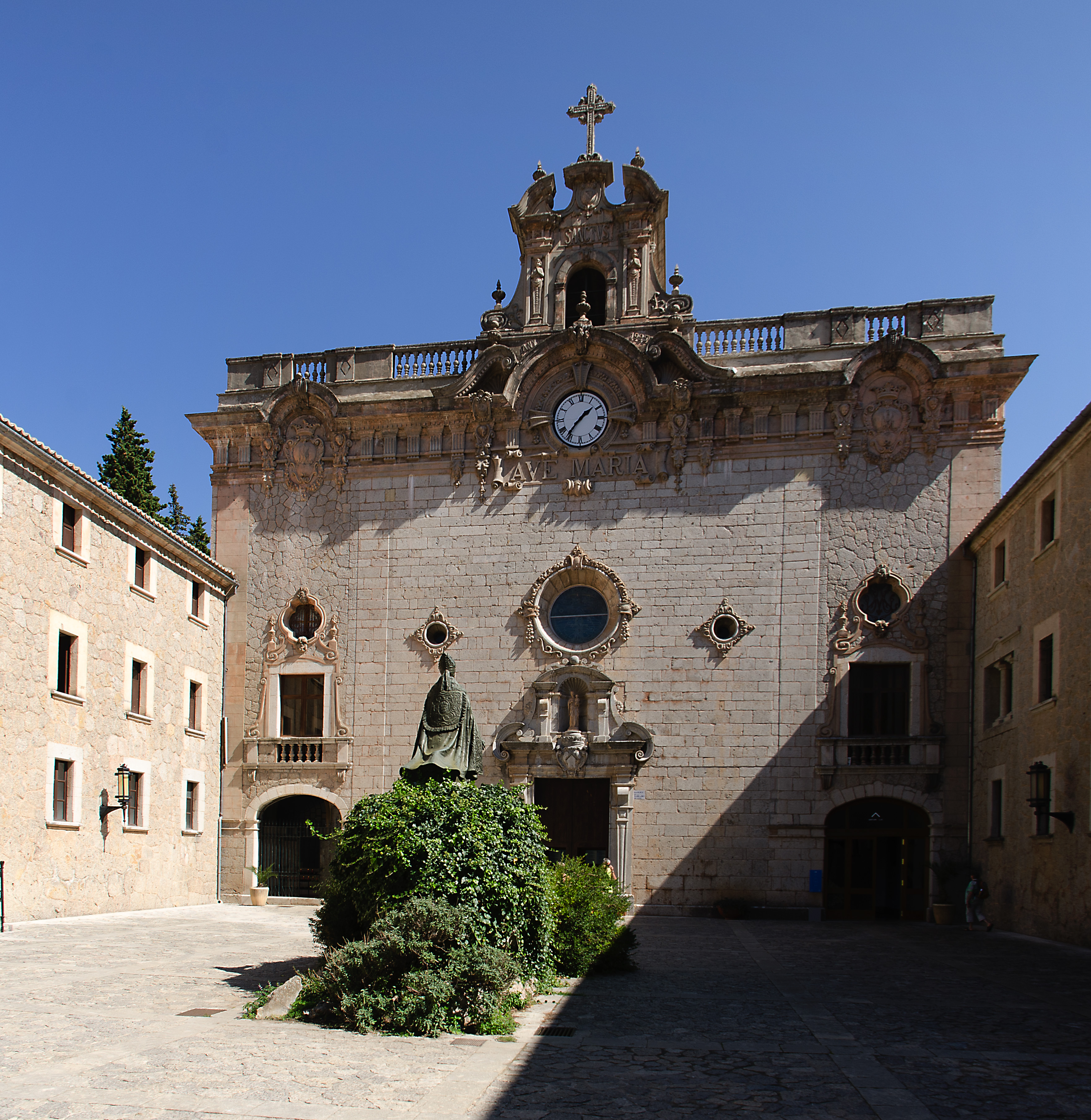 Basilica, Lluc, Mallorca NOTE: This image is a panorama consisting of 2 frames that were merged in Hugin. As a result, this image necessarily underwent some form of digital manipulation. These manipulations may include blending, blurring, cloning, and color and perspective adjustments. As a result of these adjustments, the image content may be slightly different than reality at the points where multiple images were combined. This manipulation is often required due to lens, perspective, and parallax distortions. This image was created with Hugin